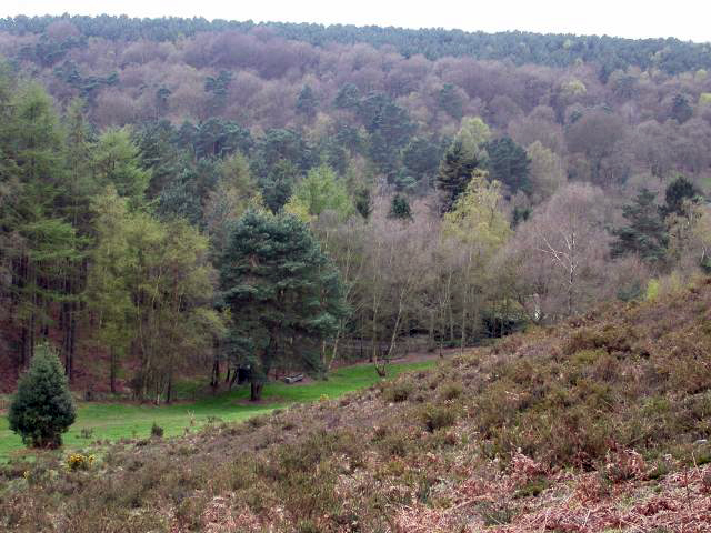 Whitmoor Vale. Taken from SU863365 looking SW into the valley